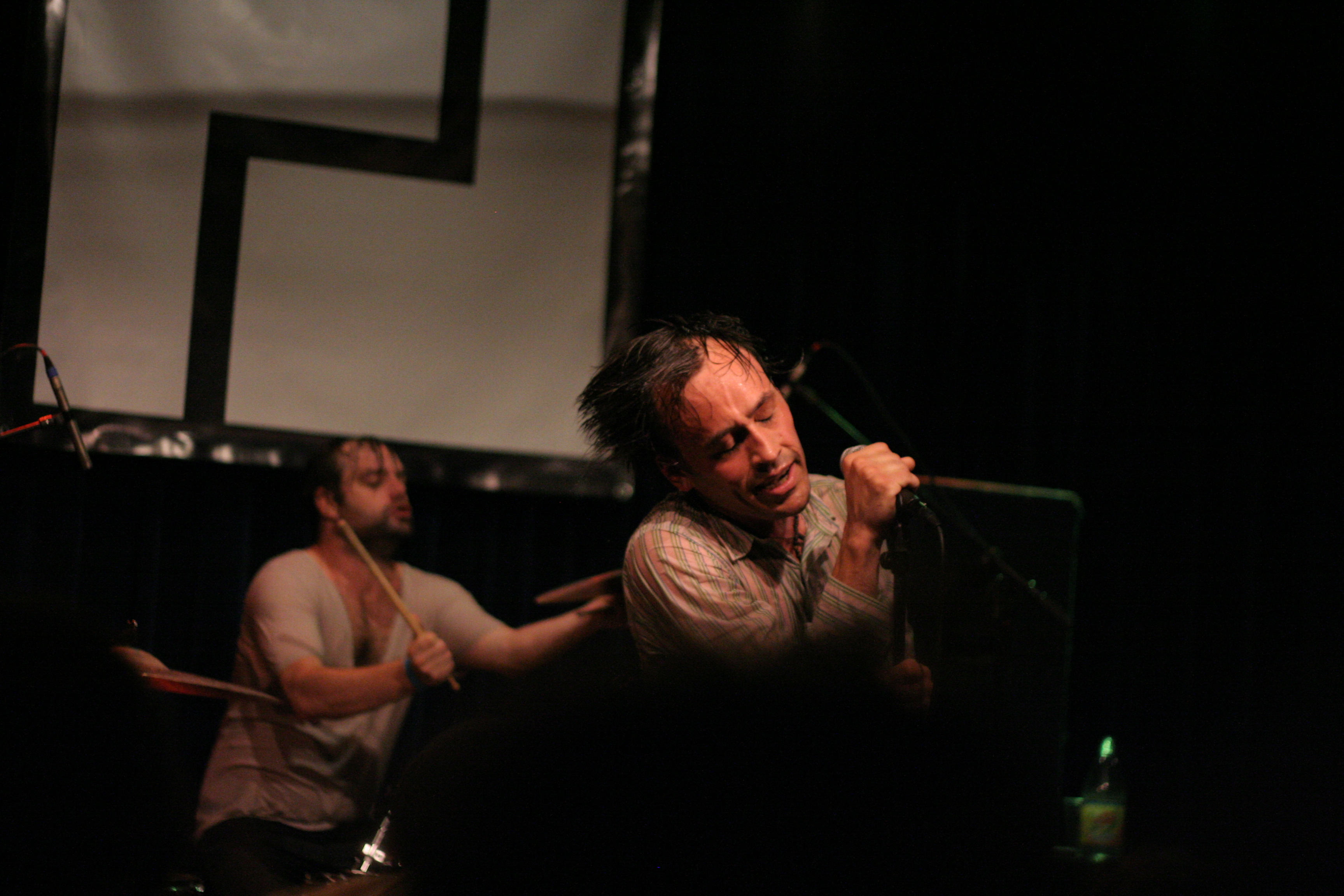 MewithoutYou on Peacedog Festival